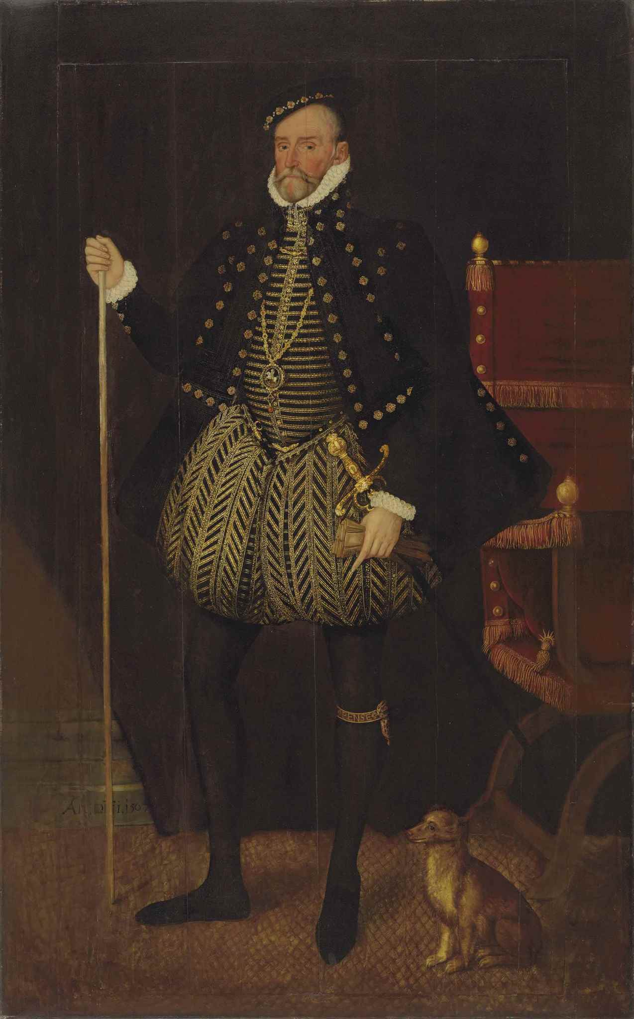 Portrait of William Herbert, 1st Earl of Pembroke, wearing the Greater George of the Order of the Garter, dated 1567.